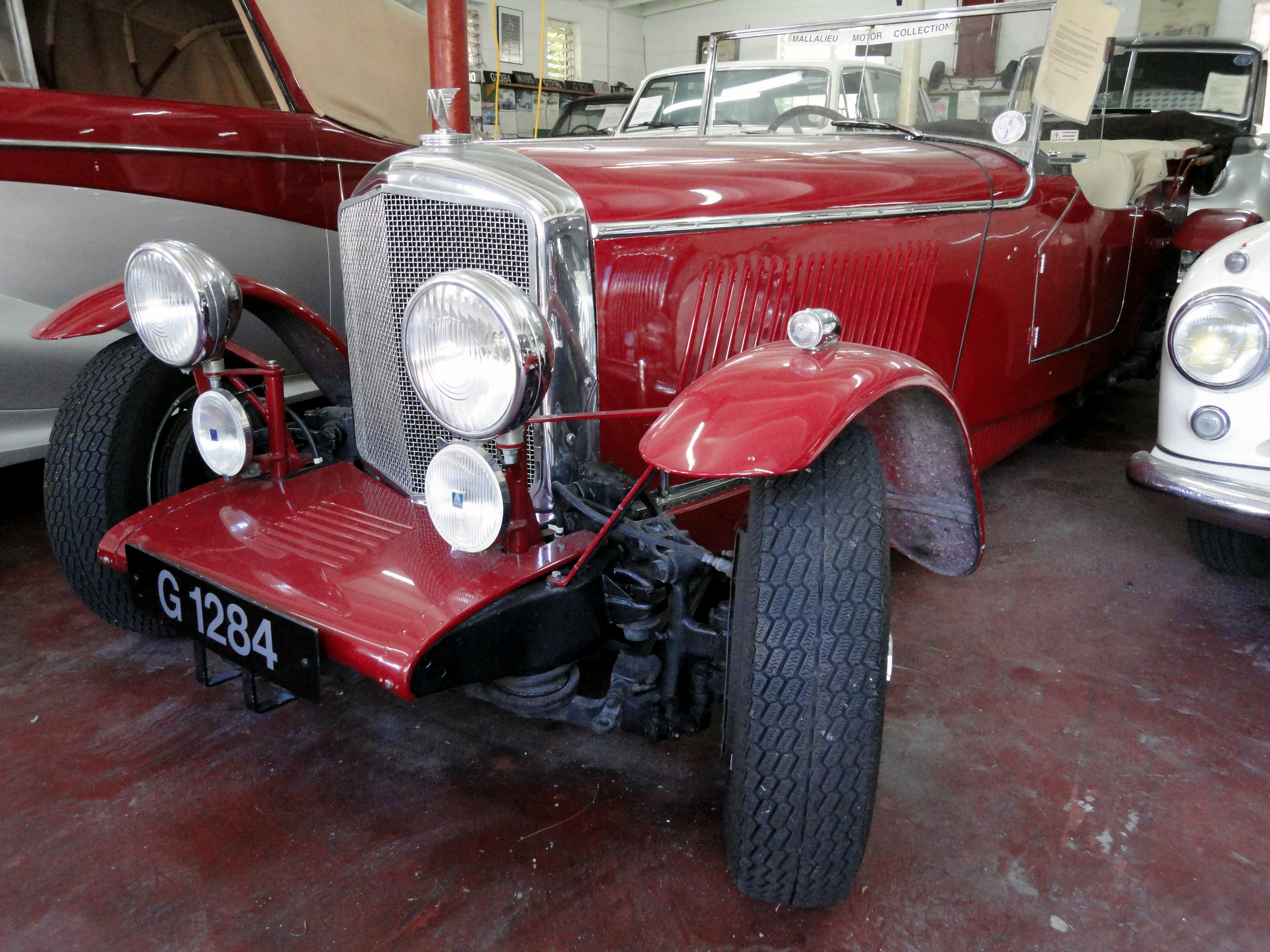 Mallalieu Motor Collection,Nov 2011